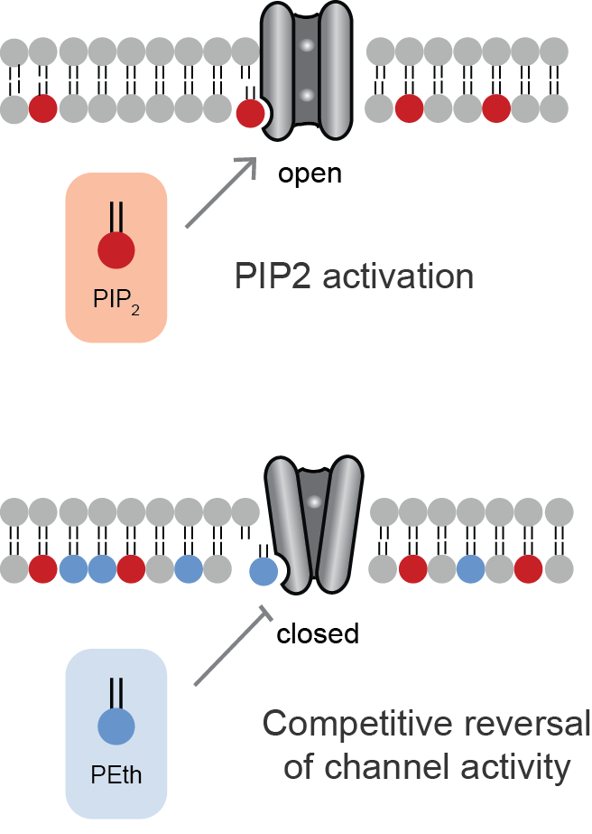 PEth directly competes with PIP2 to block its activation of potassium channels.